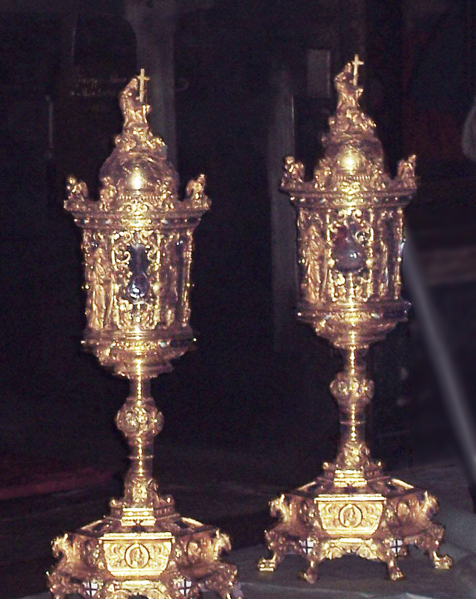 Mantova The Sacred Vessels Precious Blood of Christ, own work, 2005, Pietro Liberati